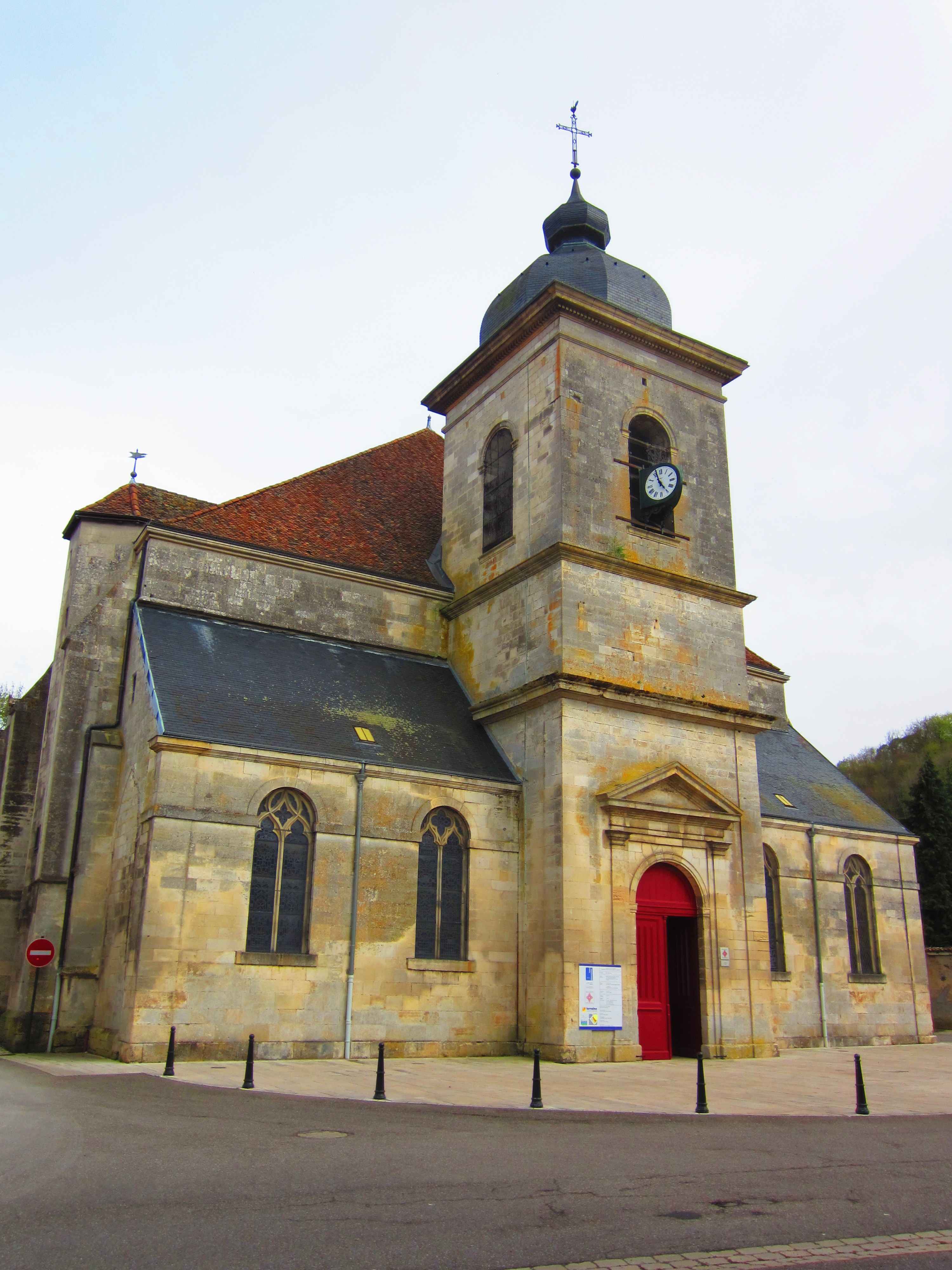 St Mihiel st etienne church